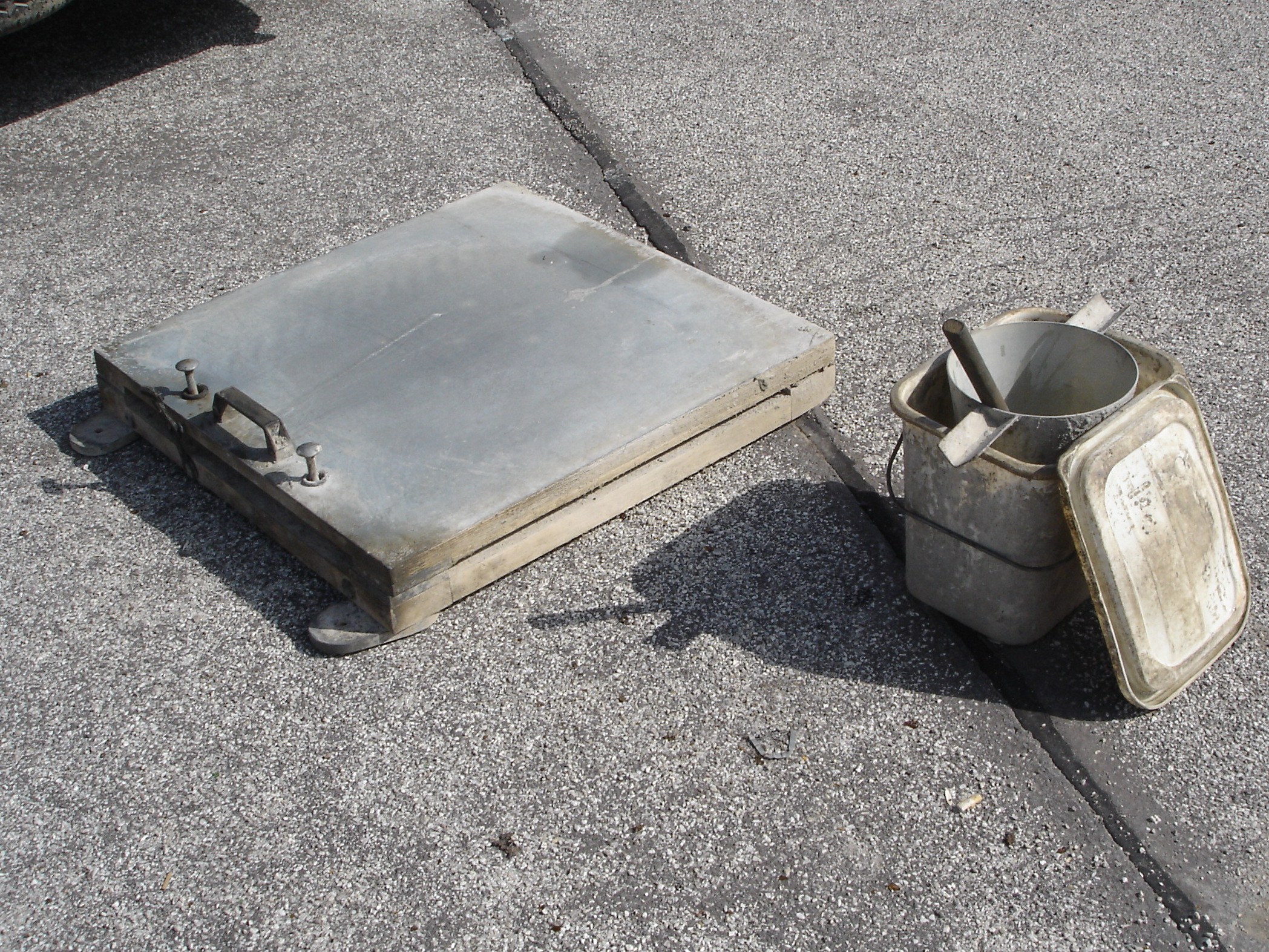 Equipment for testing consistence of fresh concrete (Flow table test)